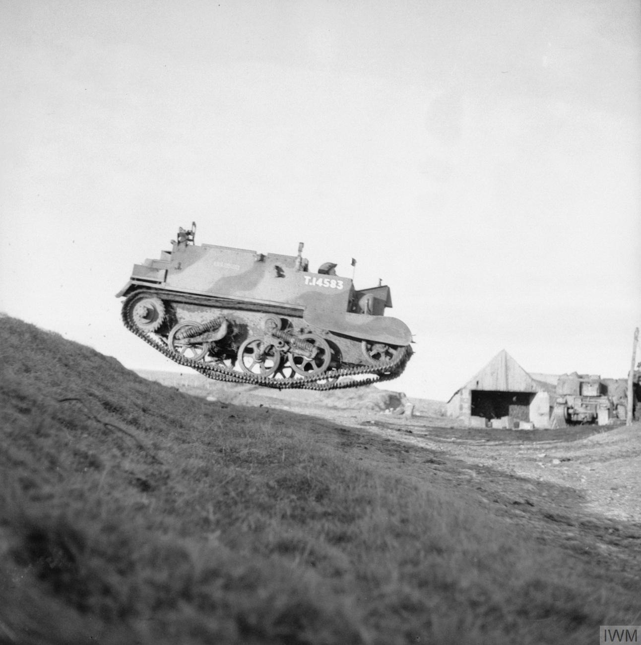 The British Army in the United Kingdom 1939-45 Universal carrier of 52nd Reconnaissance Regiment moving at speed over rough ground, Scotland, 10 November 1942.